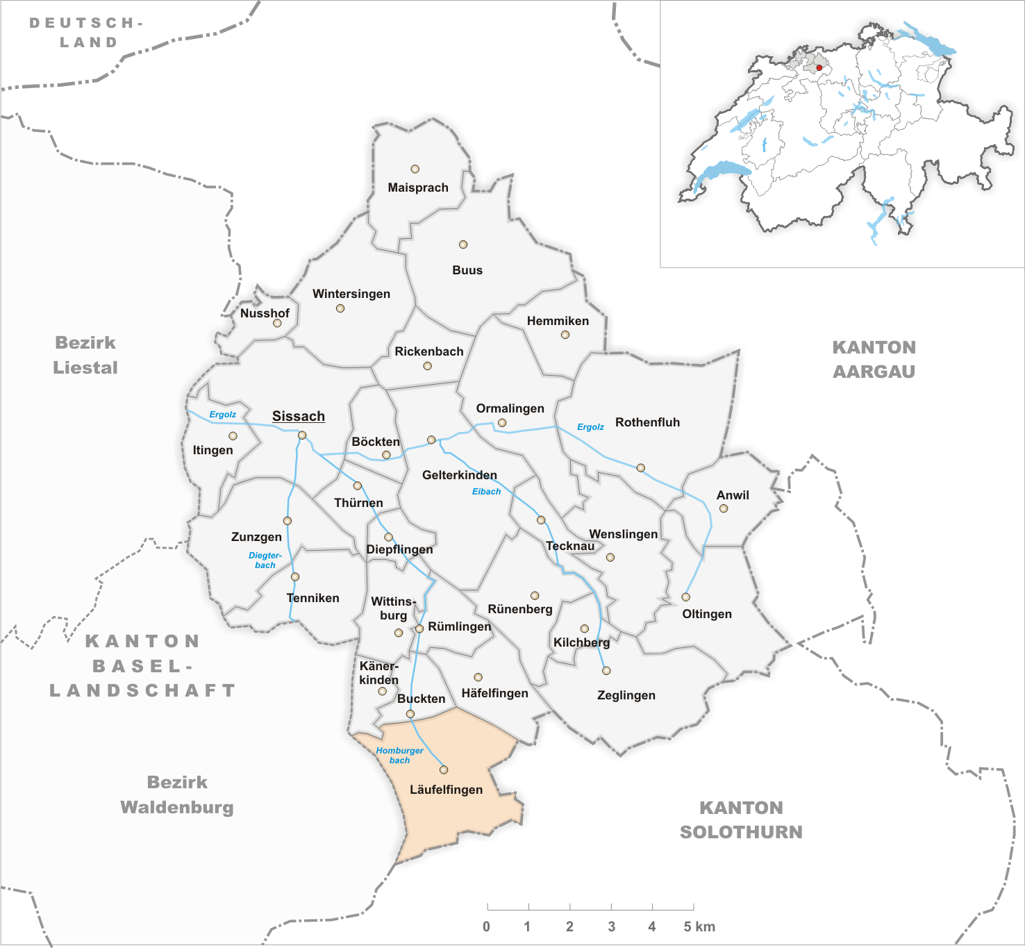 Municipality Läufelfingen